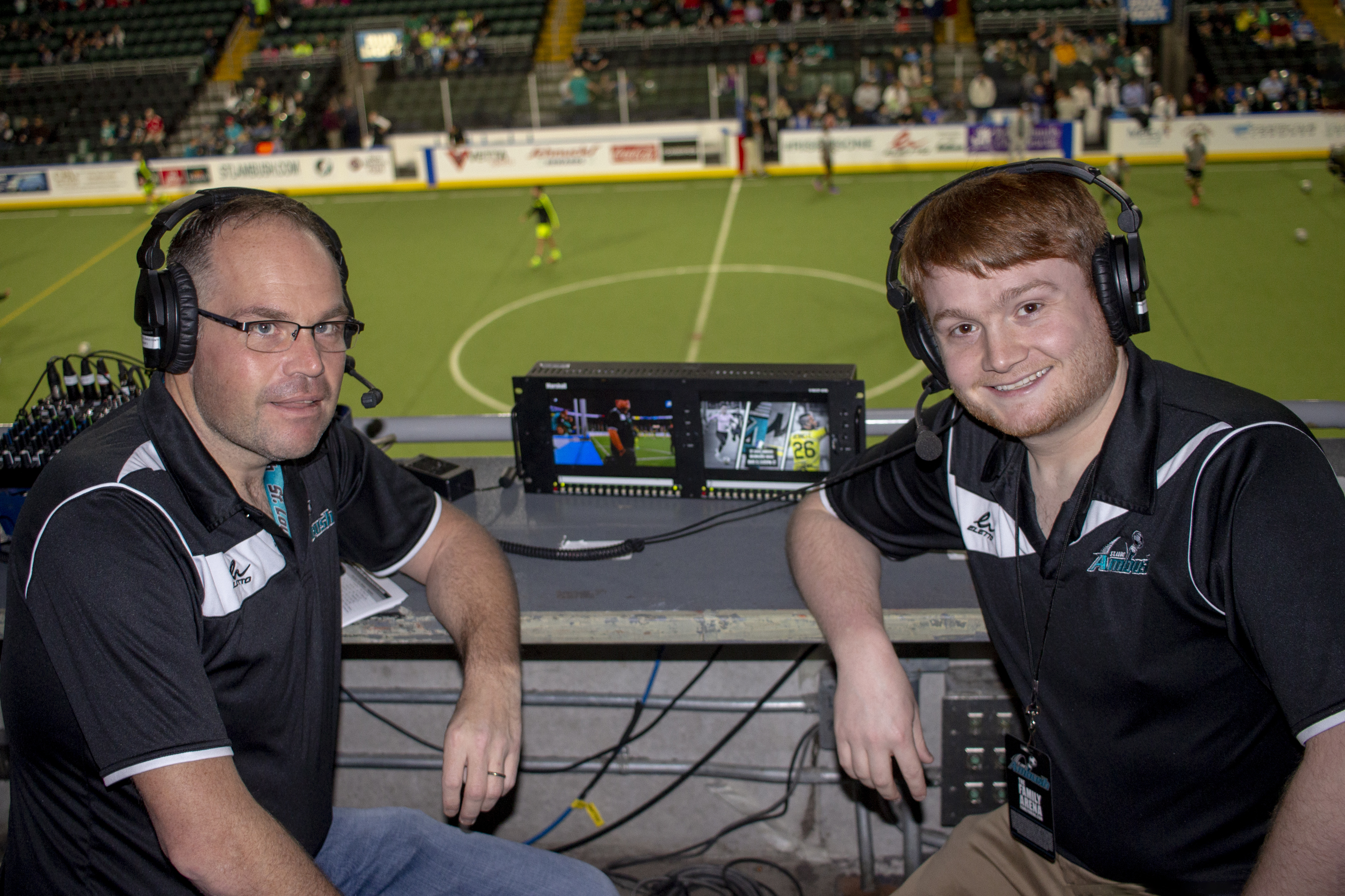 St.Louis Ambush Soccer club Announcers, Matthew Bird and Patrick Kelly. 2019